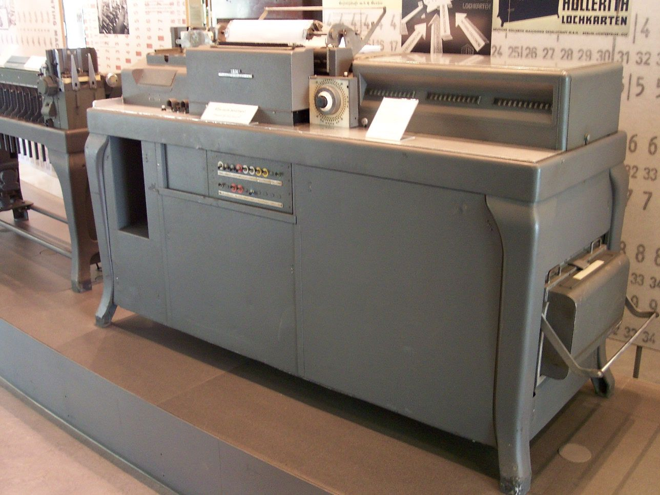 Early IBM tabulating machine, with IBM card sorter in the background.